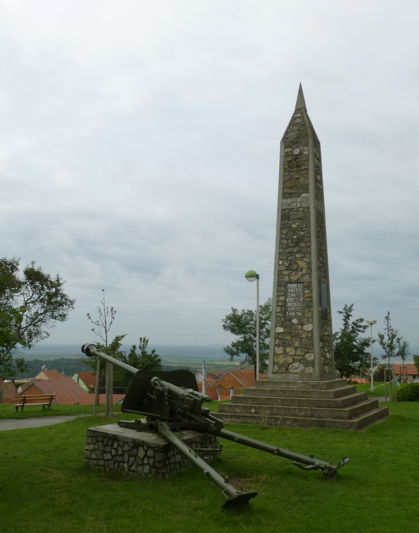 Red Army Obelisc for the 1945 victims in Vrbice (Břeclav District), South Moravian Region, Czech Republic.